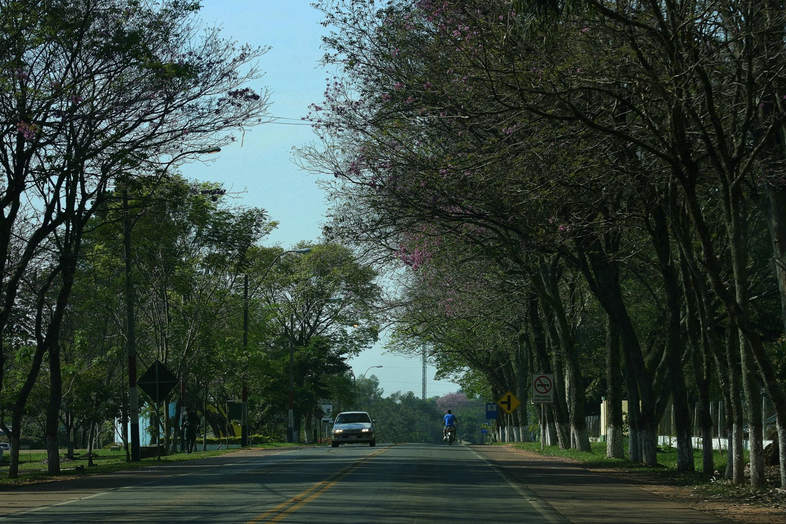 Route 1 passing by San Juan Bautista, Misiones, Paraguay.